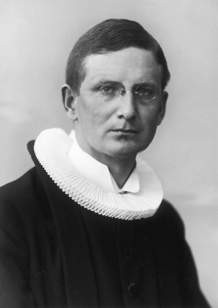 Peter Tage Schack (1892-1945), Danish priest and resistance member